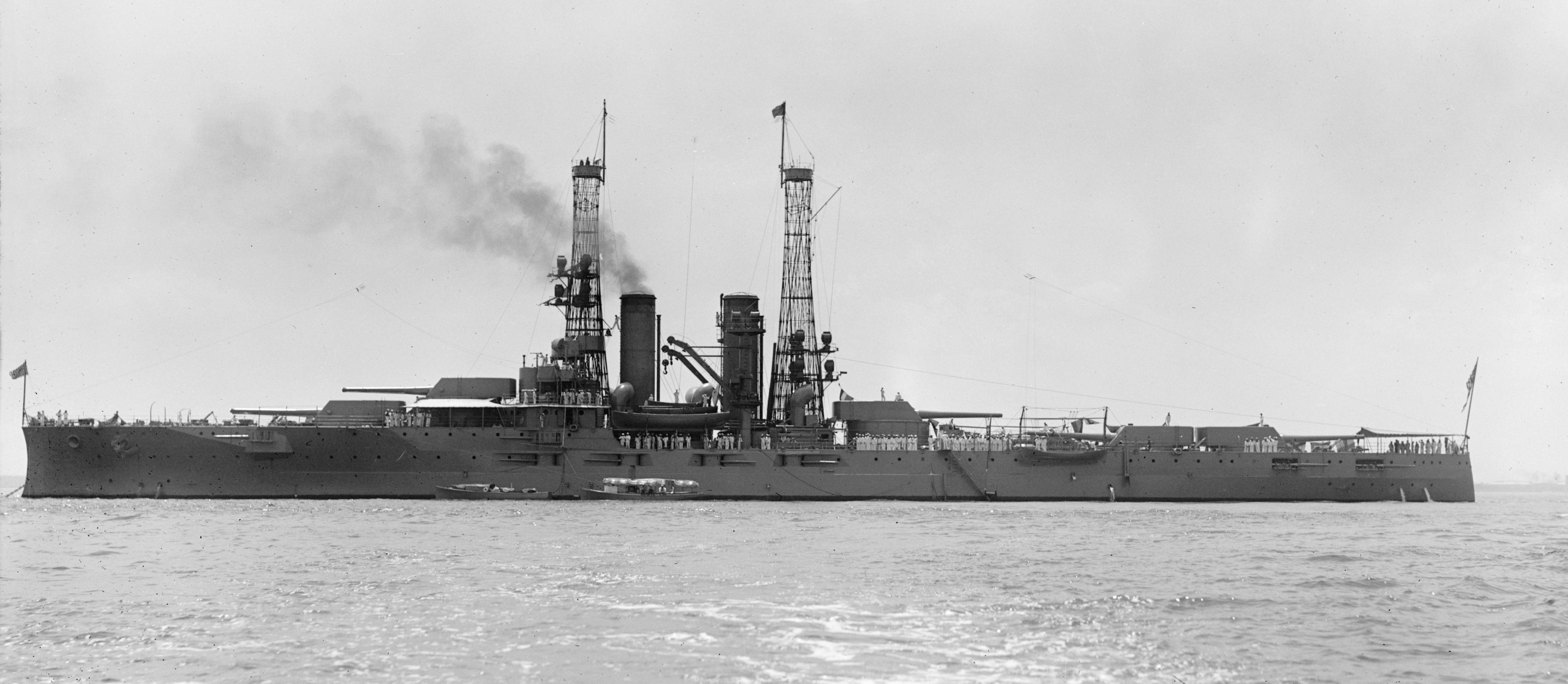 Florida class battleship in 1912 (either USS Utah or USS Florida). LOC title: GERMAN SQUADRON-VISIT TO U.S. U.S. BATTLESHIP IN HAMPTON ROADS TO GREET SQUADRON